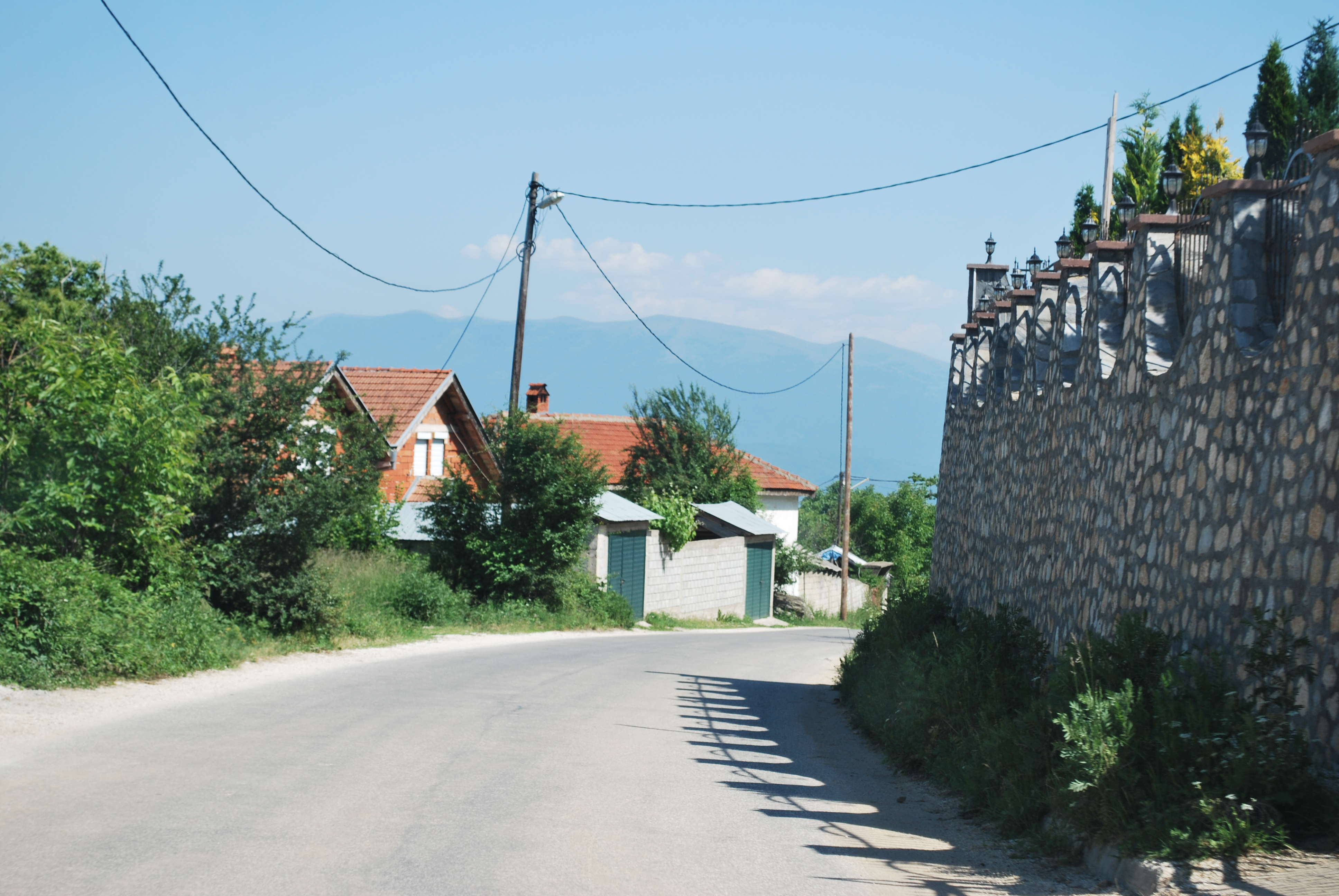 Village of Gajre near Tetovo in Macedonia